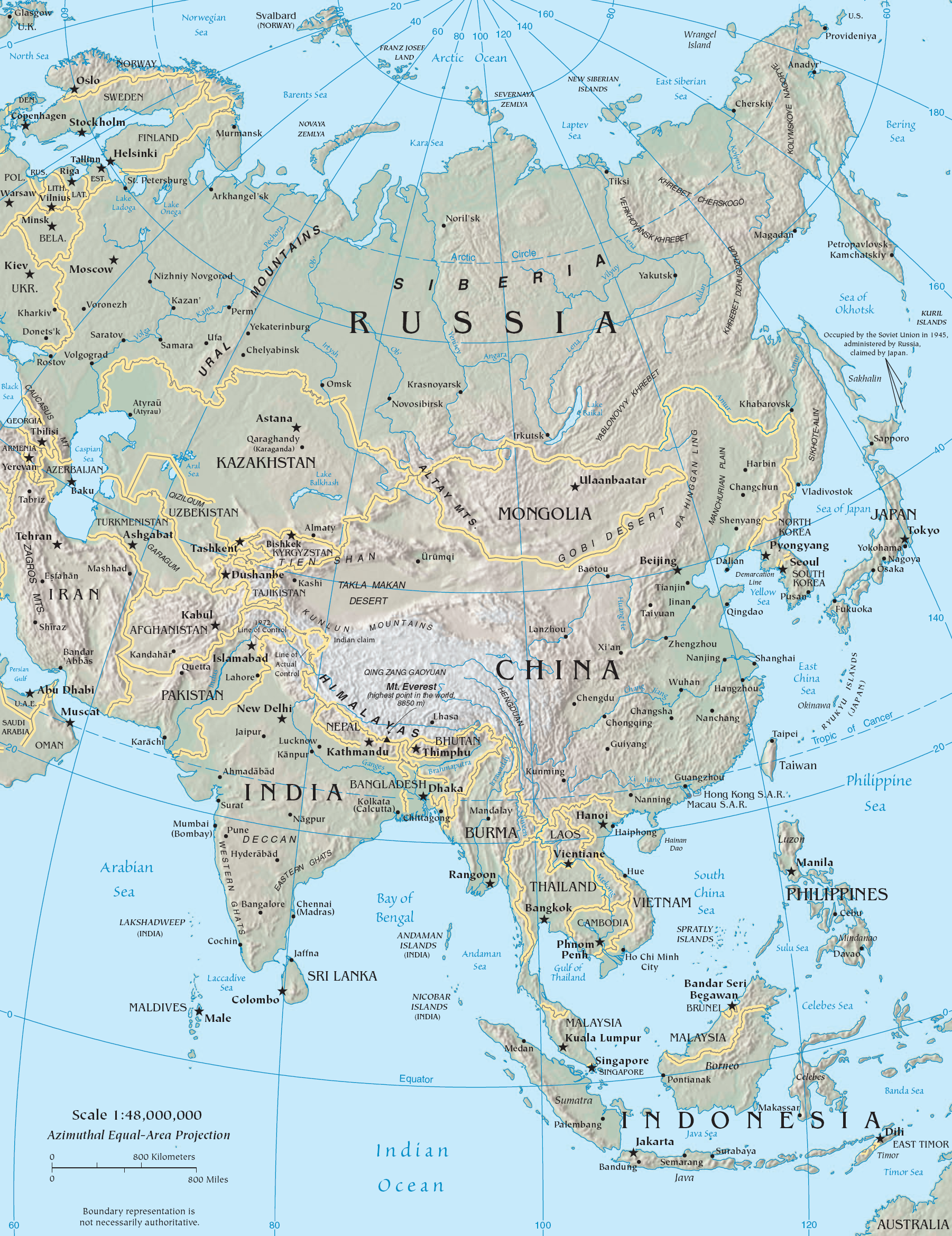 Map of Asia, the Middle East was cropped right out of the map of "Asia".